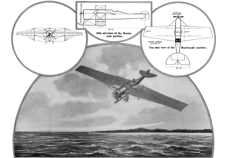 Illustration of the Martin-Handasyde transatlantic monoplane from Scientific American